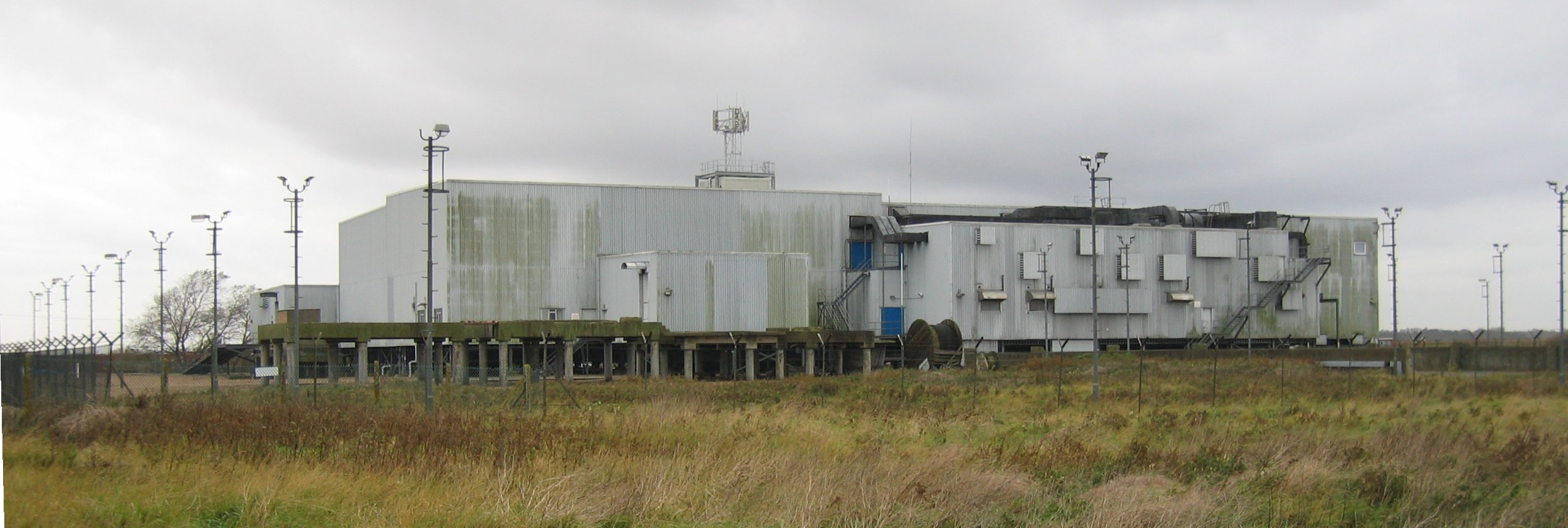 Former Cobra Mist building at Orford Ness, now used for the Orfordness Transmitter. Photo taken by User:Harumphy October 20th, 2004.